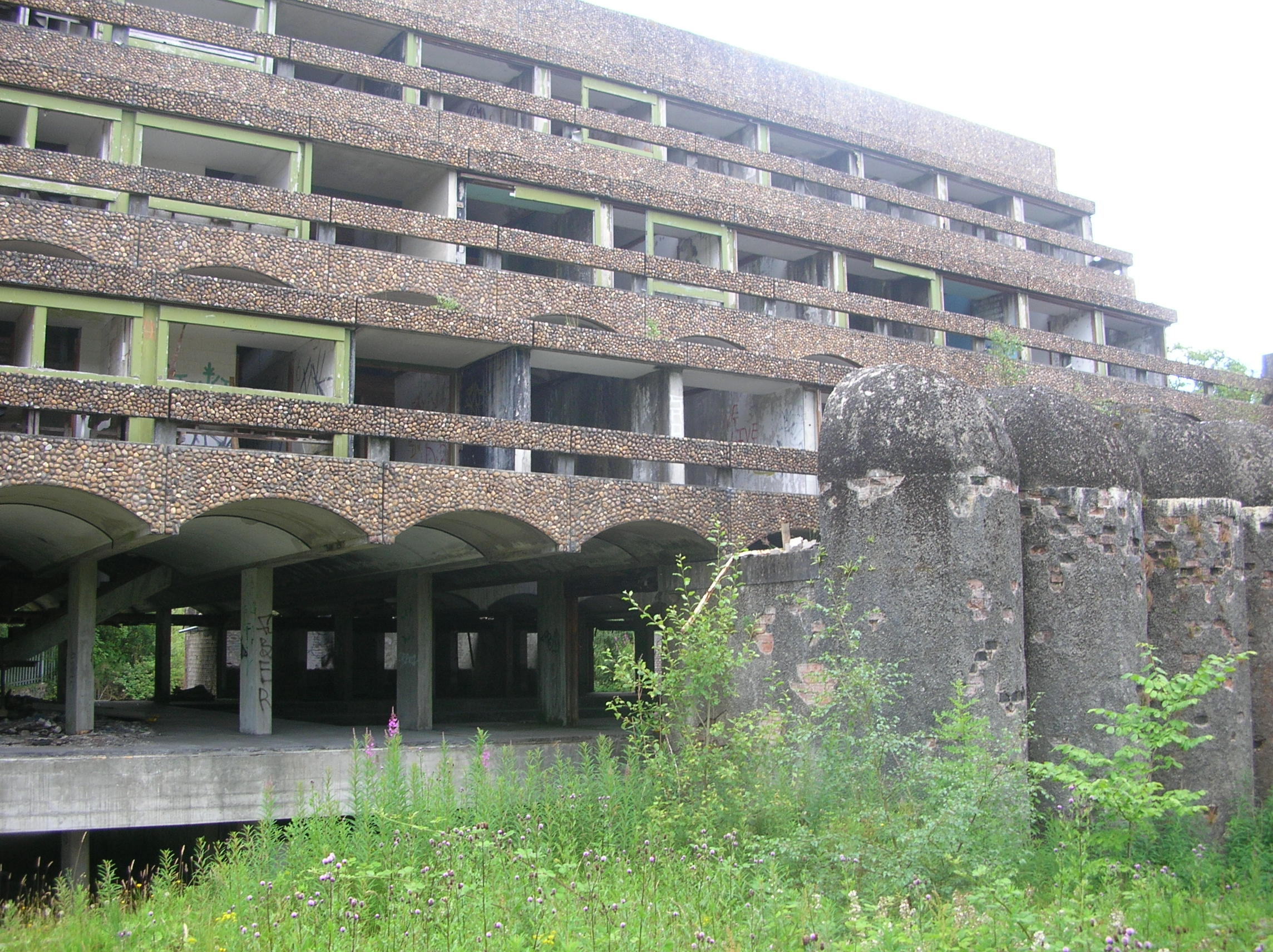 Main block with terraced rooms at St Peter's Seminary in Cardross designed by Gillespie, Kidd and Coia